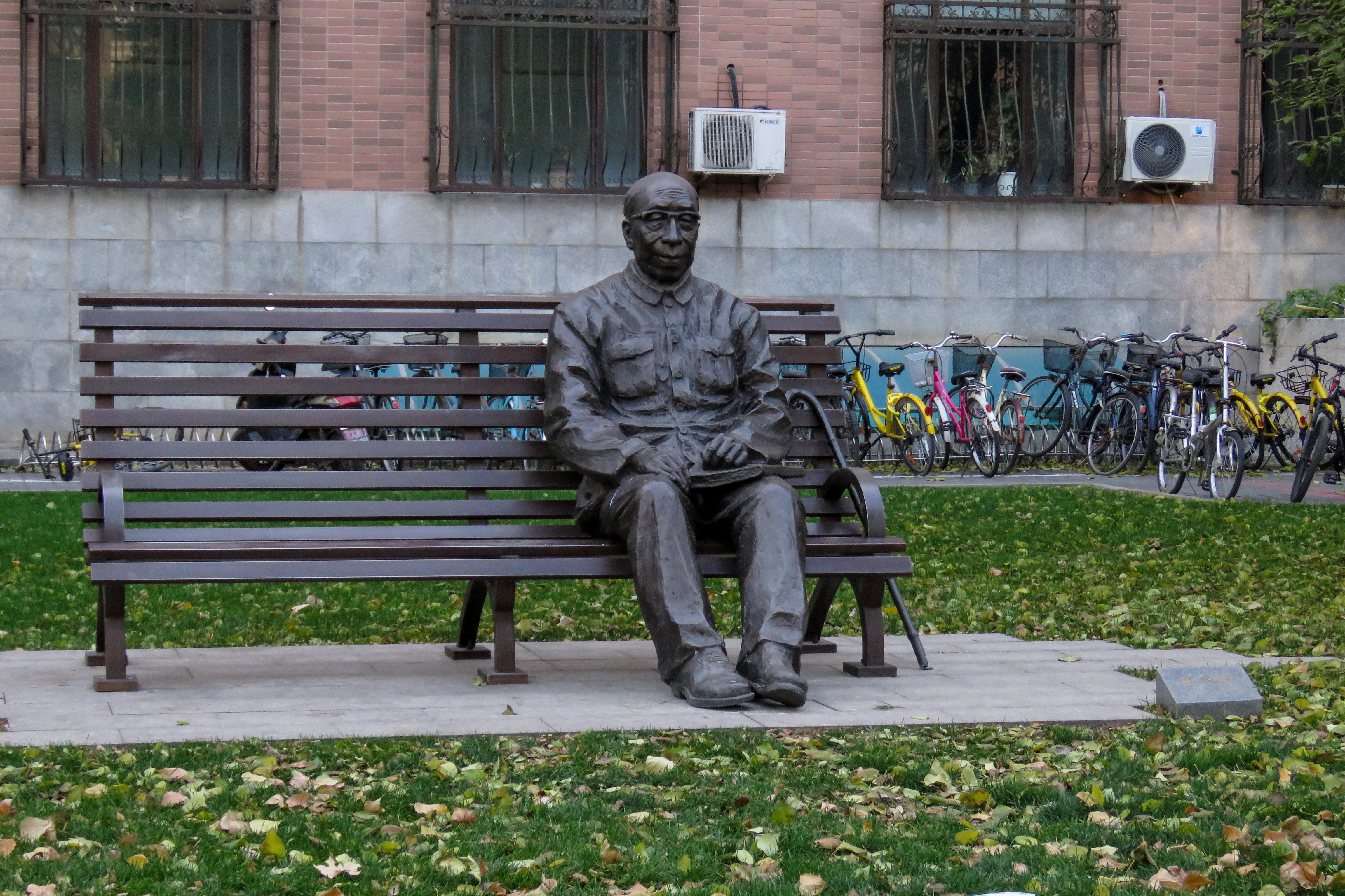 Likewise, this plant pathologist is not to be confused with the poet Yu Dafu. Two namesake cases here.